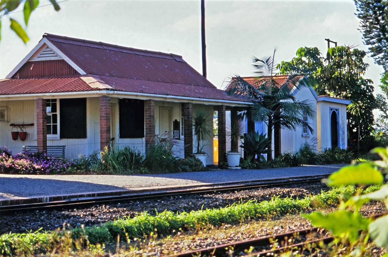 This media shows a South African Protected Site with SAHRA file reference 9/2/439/0001.